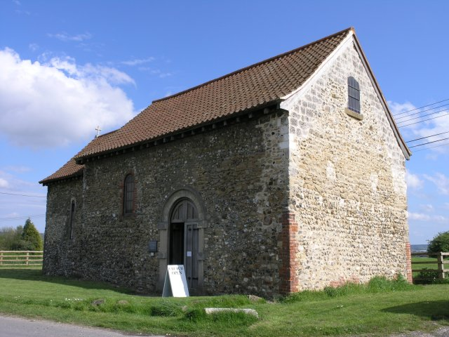 St Benedict's Church, Snodland, Kent. It served a small village that surrounded it, but this was wiped out in the Black Death in 1349. The church has been used as a barn for most of the time since then, but was restored in 1935.